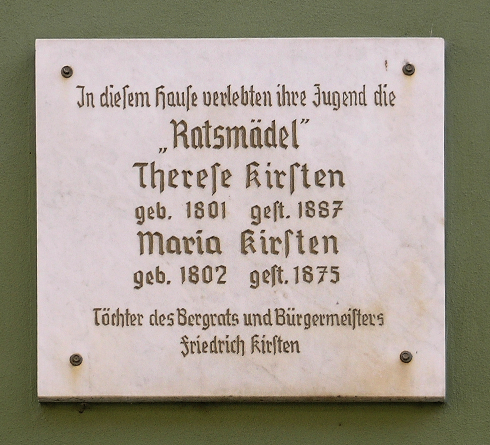 Memorial plaque, Therese Kirsten, Windischenstraße 13, Weimar, Germany Koordinate:52°58′44″N 11°19′50″E / 52.97889°N 11.33056°E